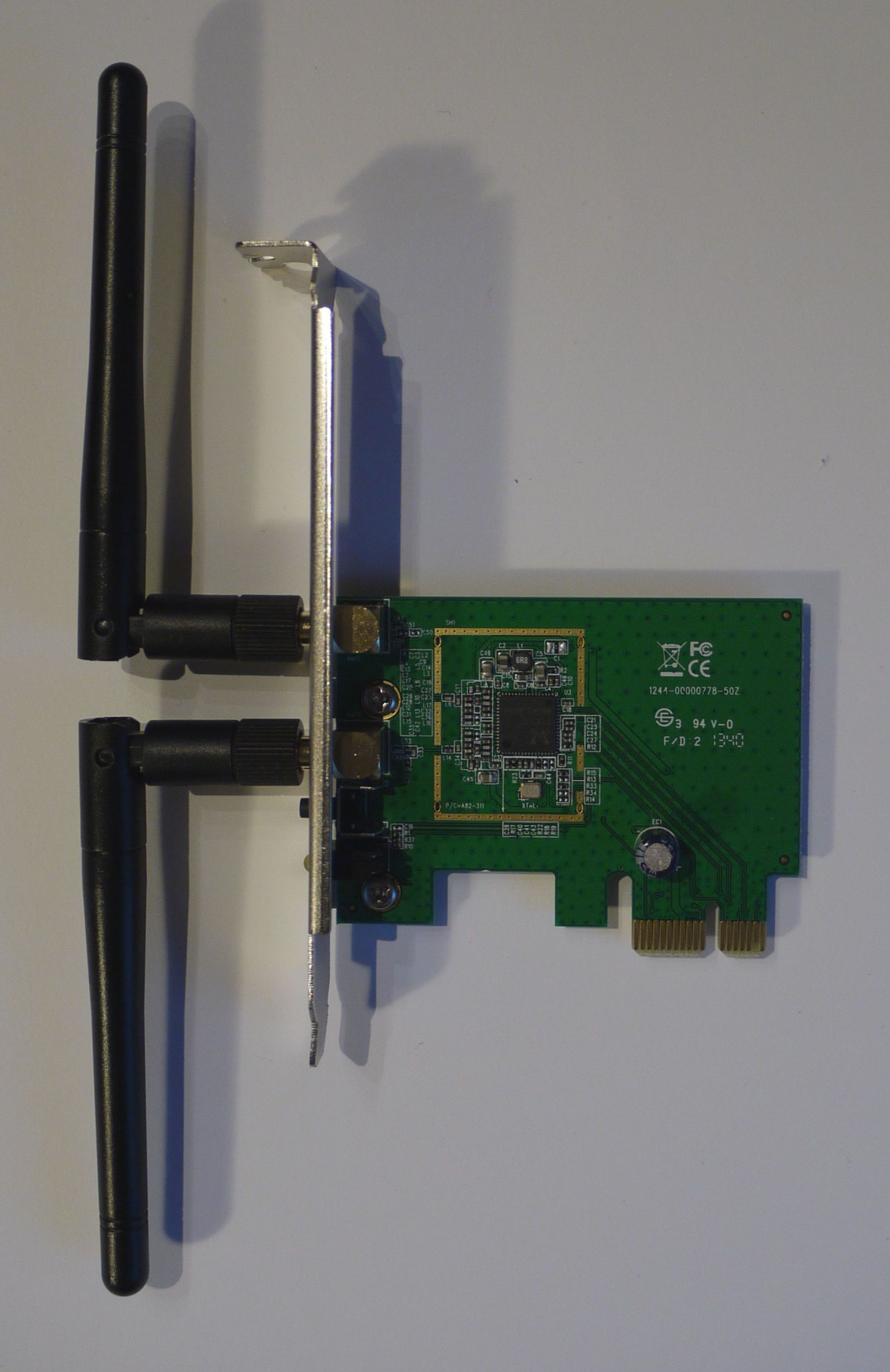 Asus PCE-N15 PCIe x1 WLAN-card